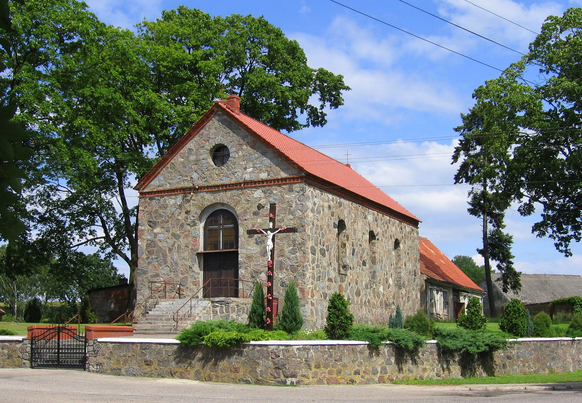 St. Mary of the Assumption Roman Catholic Church in Nowe Worowo, Poland